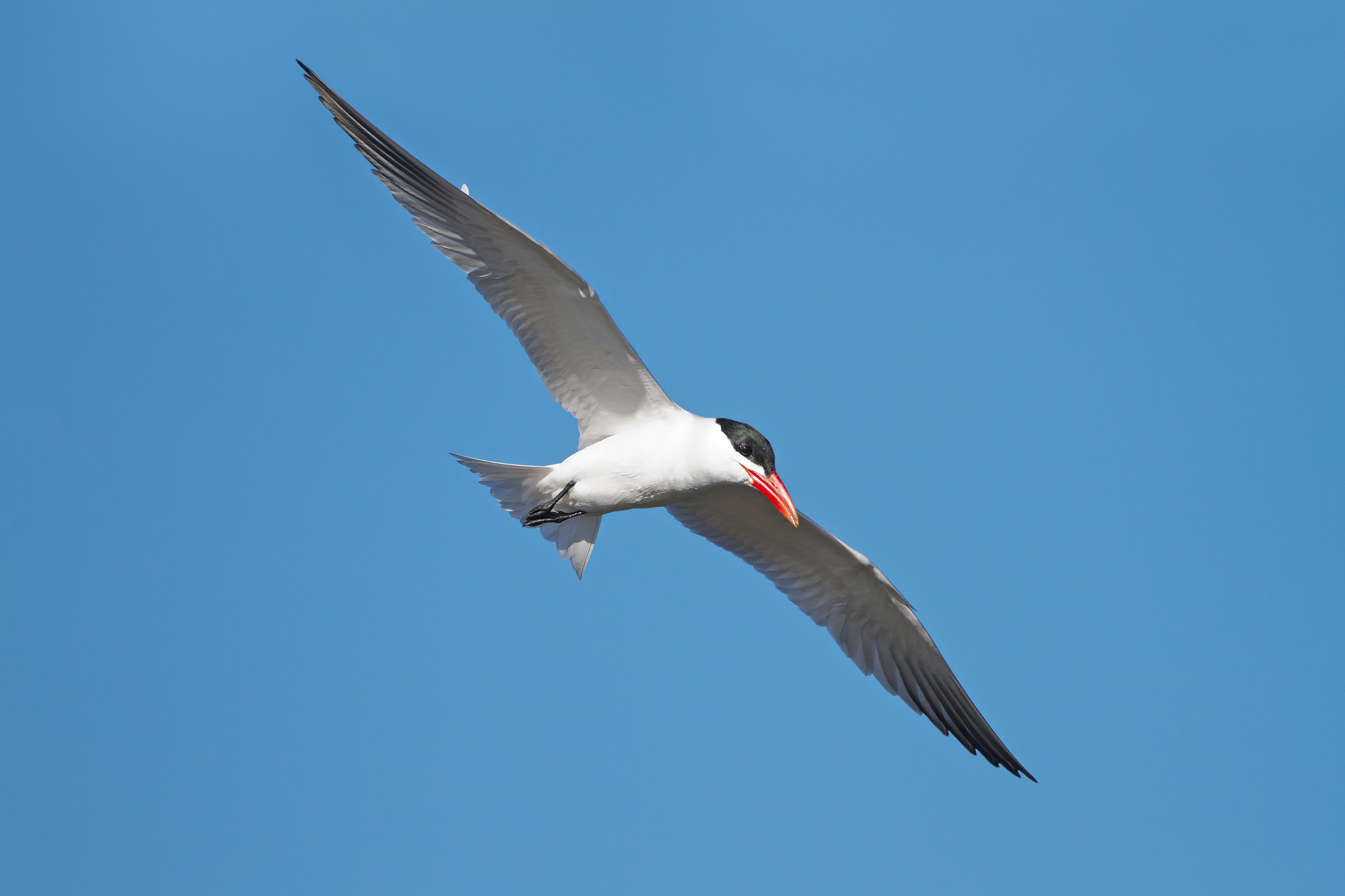 Caspian Tern (Hydroprogne caspia), Gould's Lagoon, Tasmania, Australia